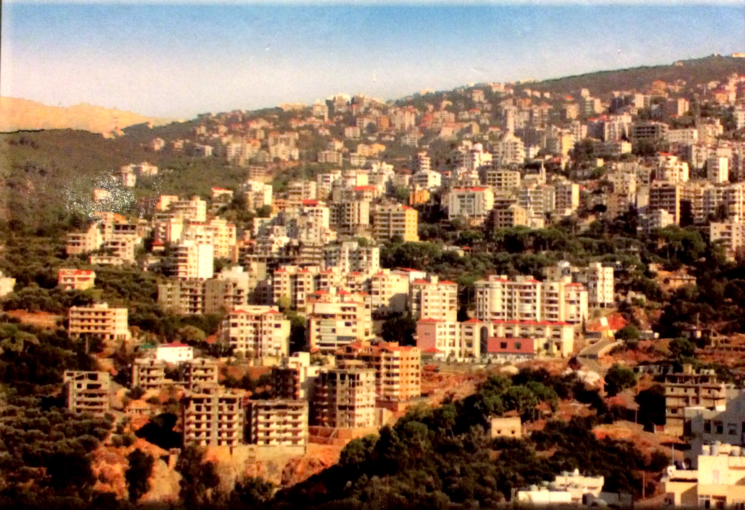 Abdo Yamine « Zakrit between yesterday and today »